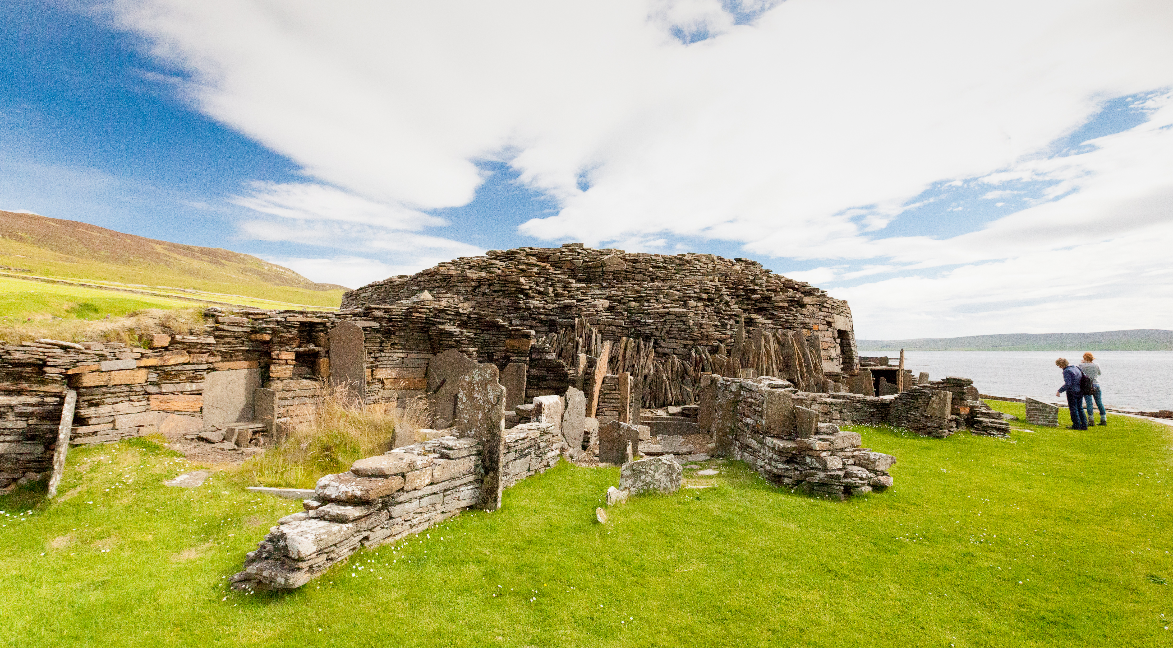 Midhowe broch, Rousay, Orkney Wikidata has entry Q31052754 with data related to this item.